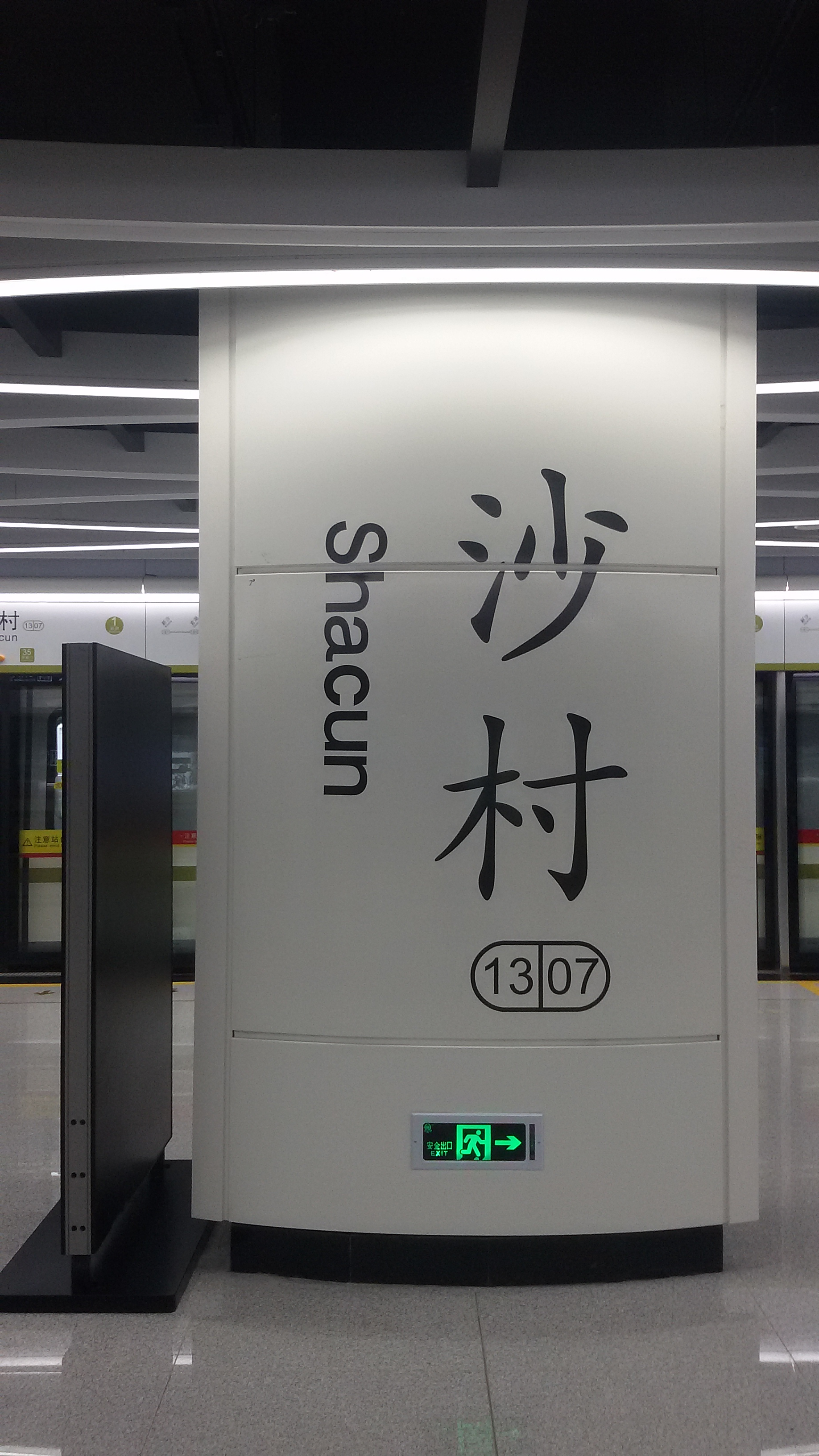 WORD on PILLAR for Shacun Station in Guangzhou Metro